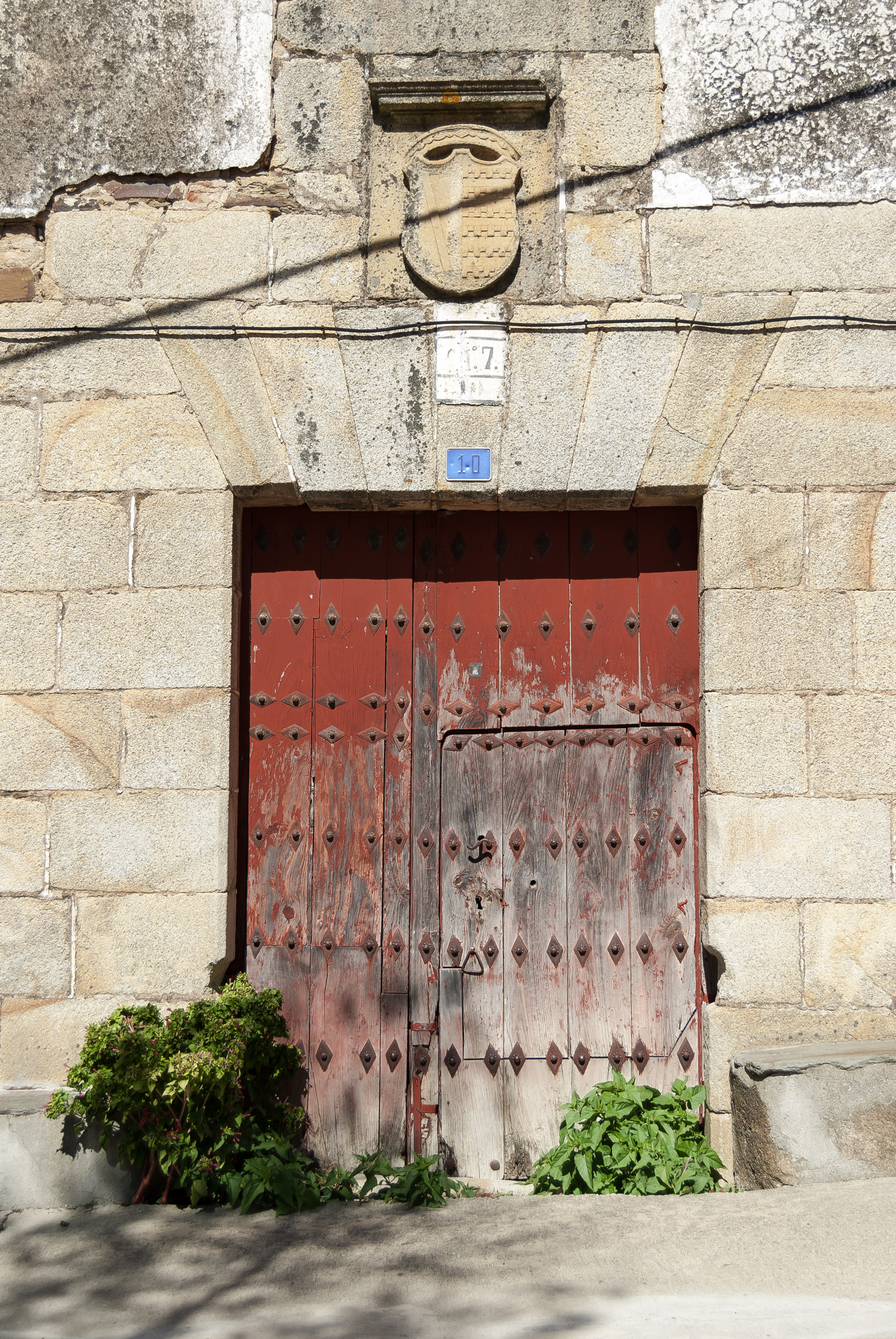 Door of the Palace of the Marquises of Mirabel